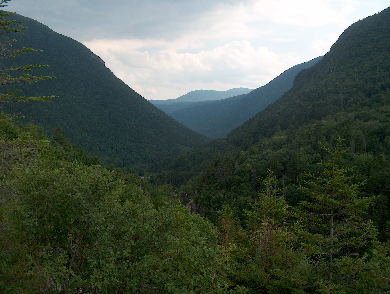 Present-day view looking south from Elephant Head.